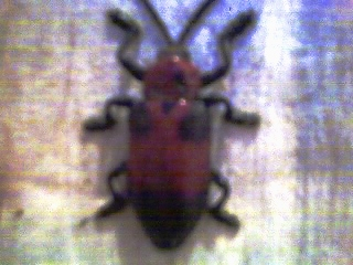 Chrysomelidae (Coraliomela aenoplagiata)